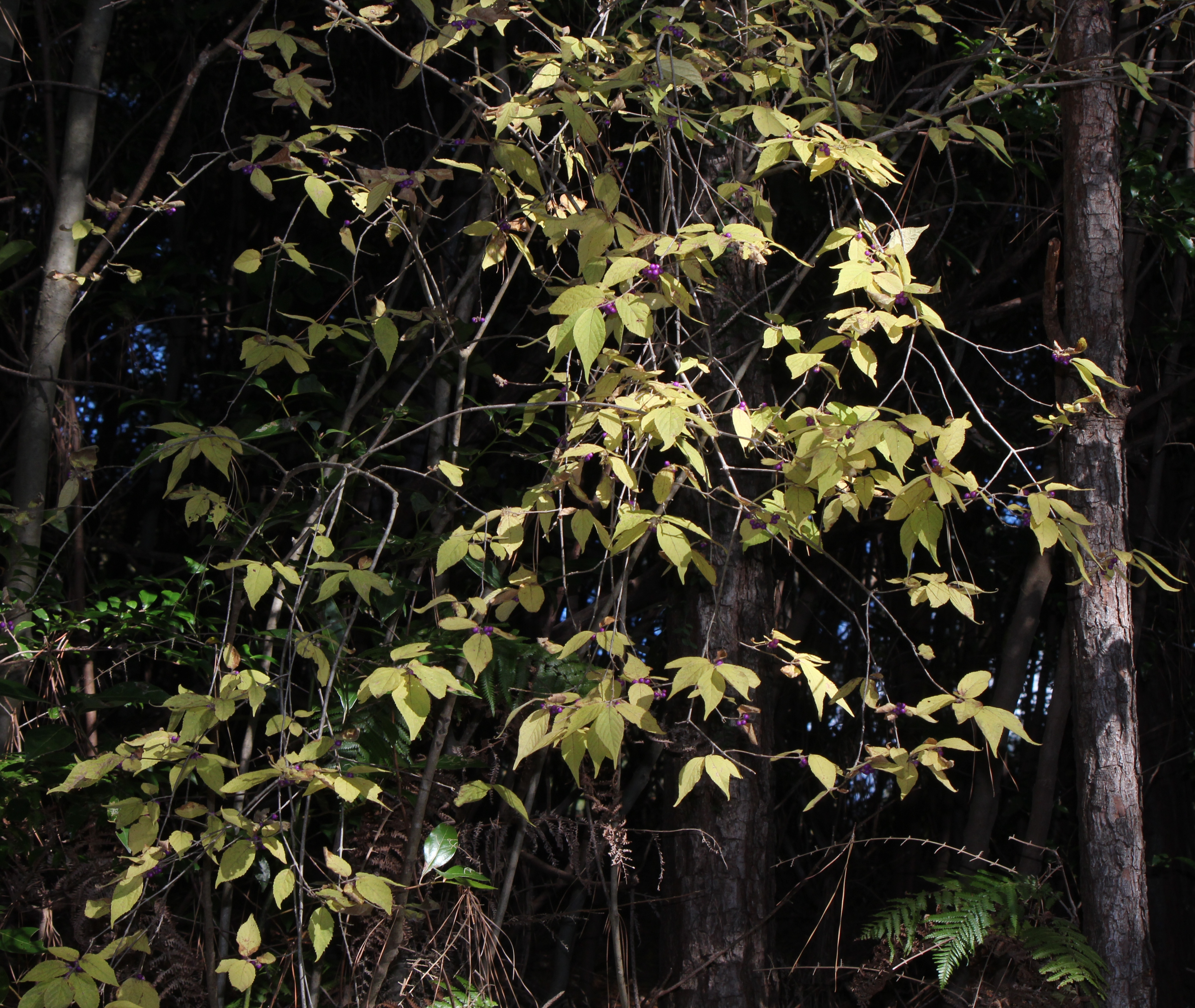 Callicarpa mollis in Yumihari Mountains, Toyohashi, Aichi Prefecture, Japan.